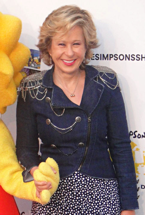 Yeardley Smith at the Simpsons 500th Episode Marathon